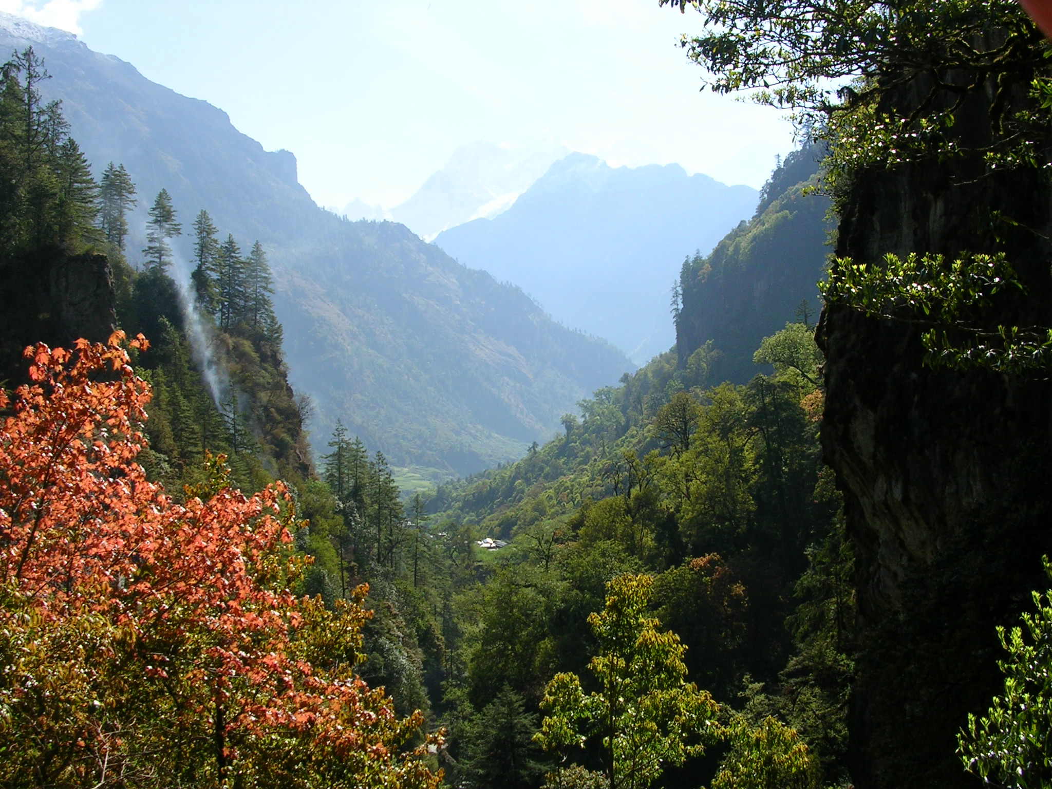 Marsyangdi valley landscape in Around Annapurna Trek. View of Manaslu (8156).